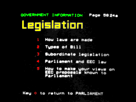 Description Page Prestel Date1981SourceOwn work by the original uploaderAuthorBernard MARTI Page Prestel